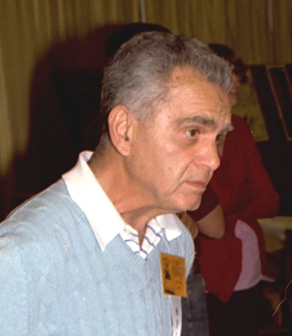 Photo of Jack Kirby at the San Diego Comic Convention.